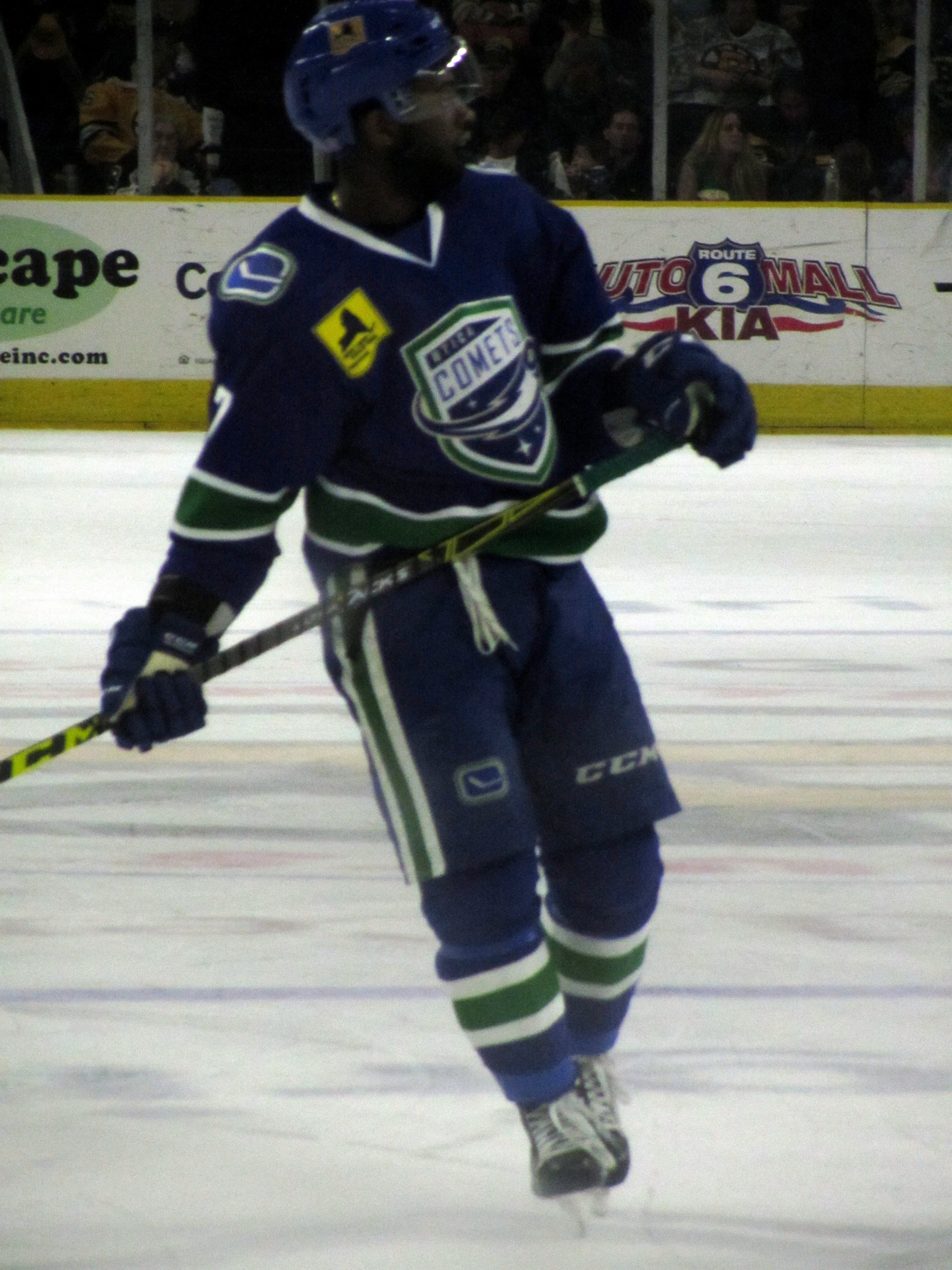 Jordan Subban with the Utica Comets